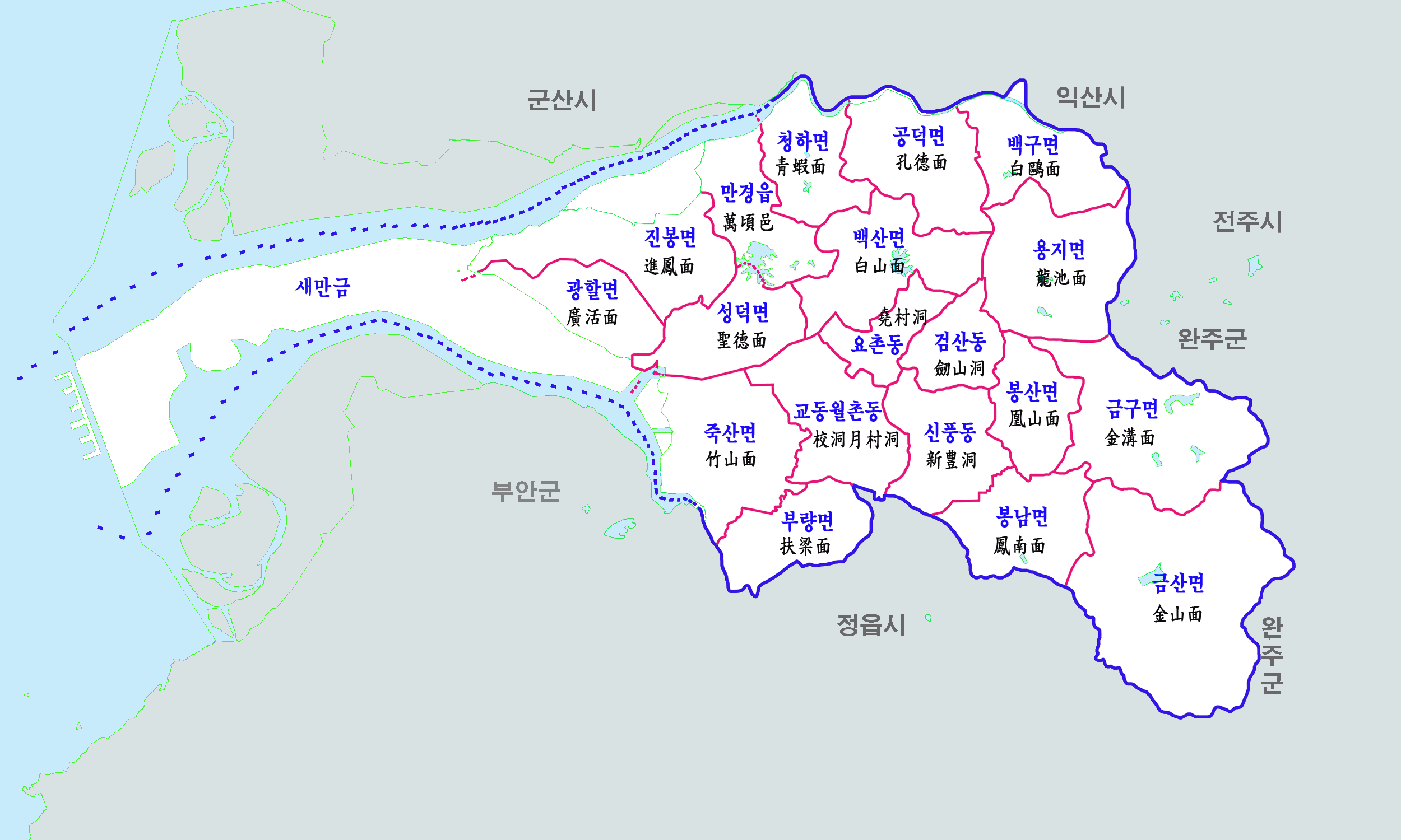 Map of Gimje.